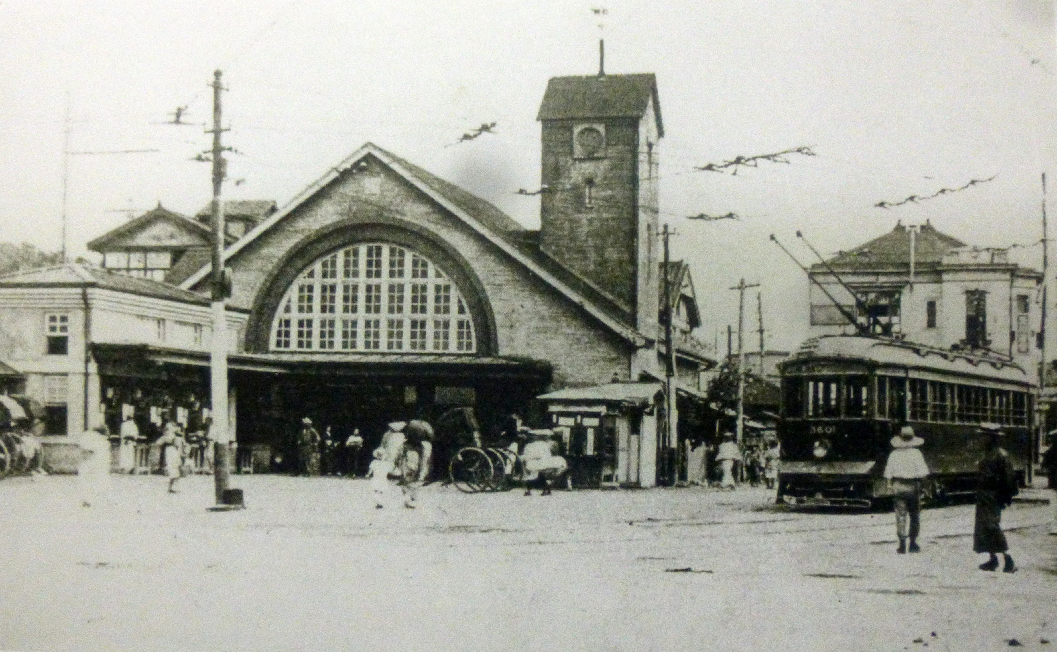 In front of Shibuya station in the early 1920s